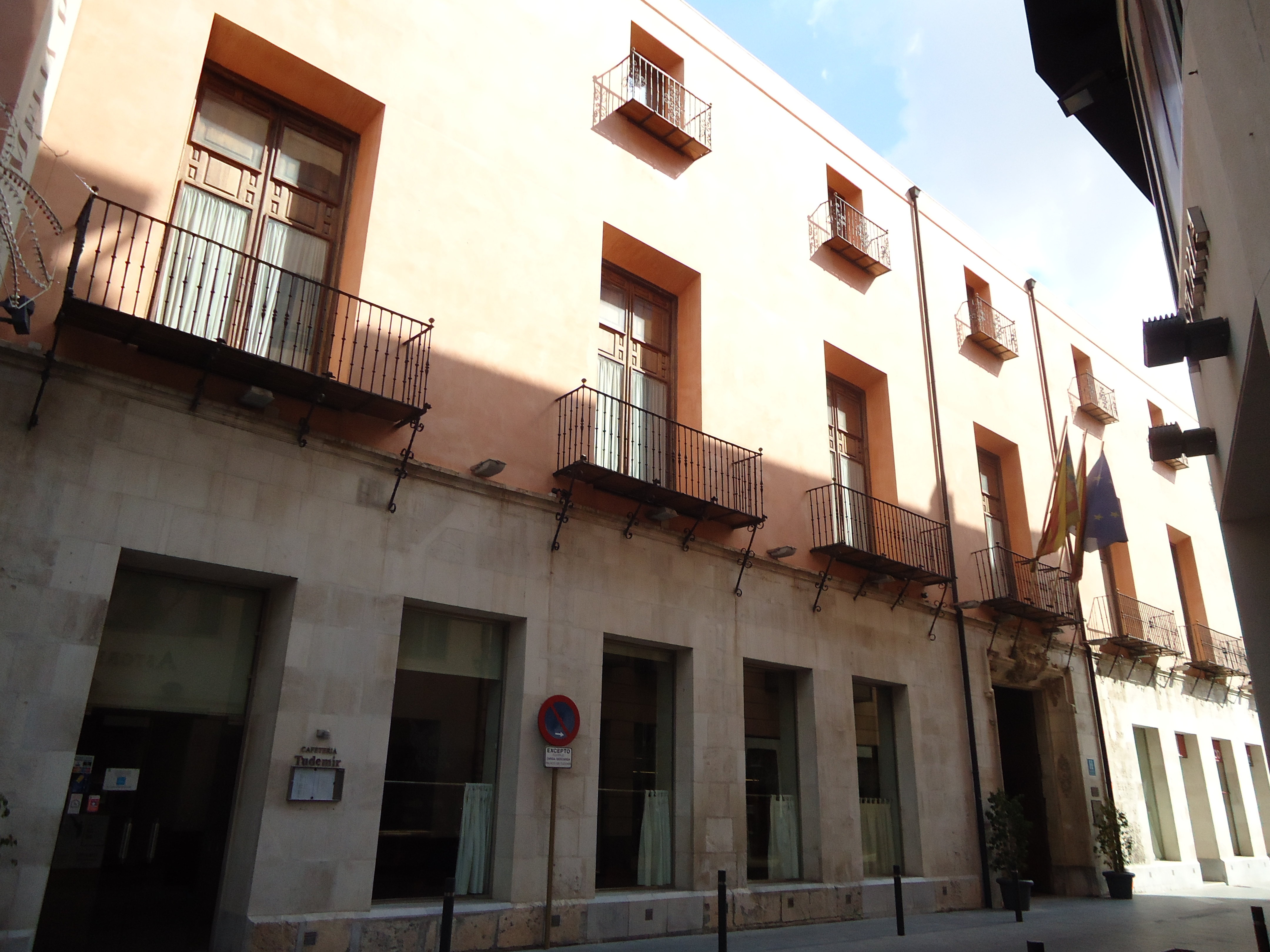 Palacio de los Condes de la Luna or the Duques de Béjar, current Hotel Meliá Palacio de Tudemir, Orihuela (Alicante, Spain)